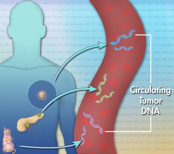 Scientists have discovered that dying tumor cells release small pieces of their DNA into the bloodstream. These pieces are called cell-free circulating tumor DNA (ctDNA).